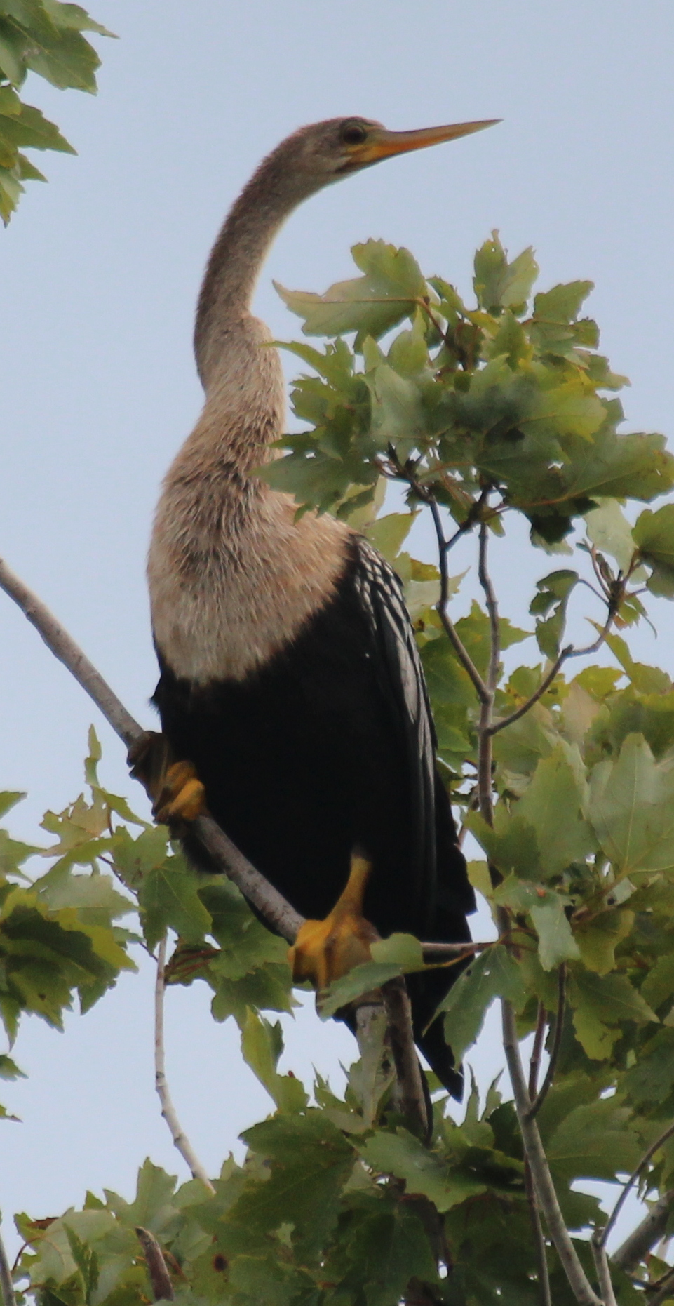 A female Anhinga near Lake Apopka, Florida, USA.